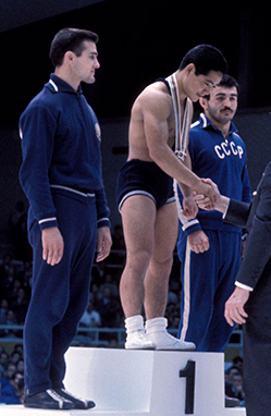 Stancho Kolev, Osamu Watanabe, Nodar Khokhashvili, 1964 Olympics